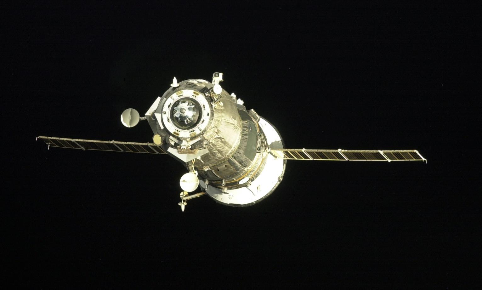 Progress M-48 seen from the International Space Station during docking.